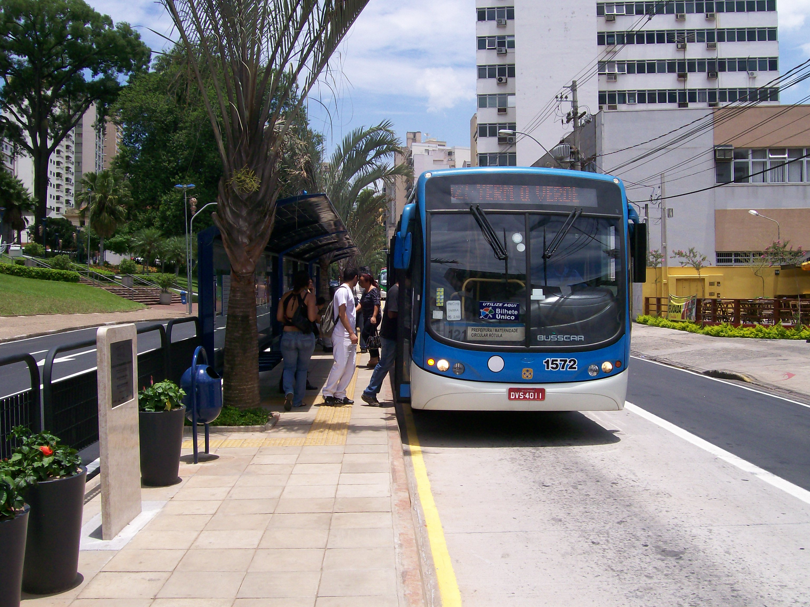 People getting on the bus by its right side. Campinas, Brazil. Busscar bus {reg. DVS-4011, #1572) with unknown chassis.